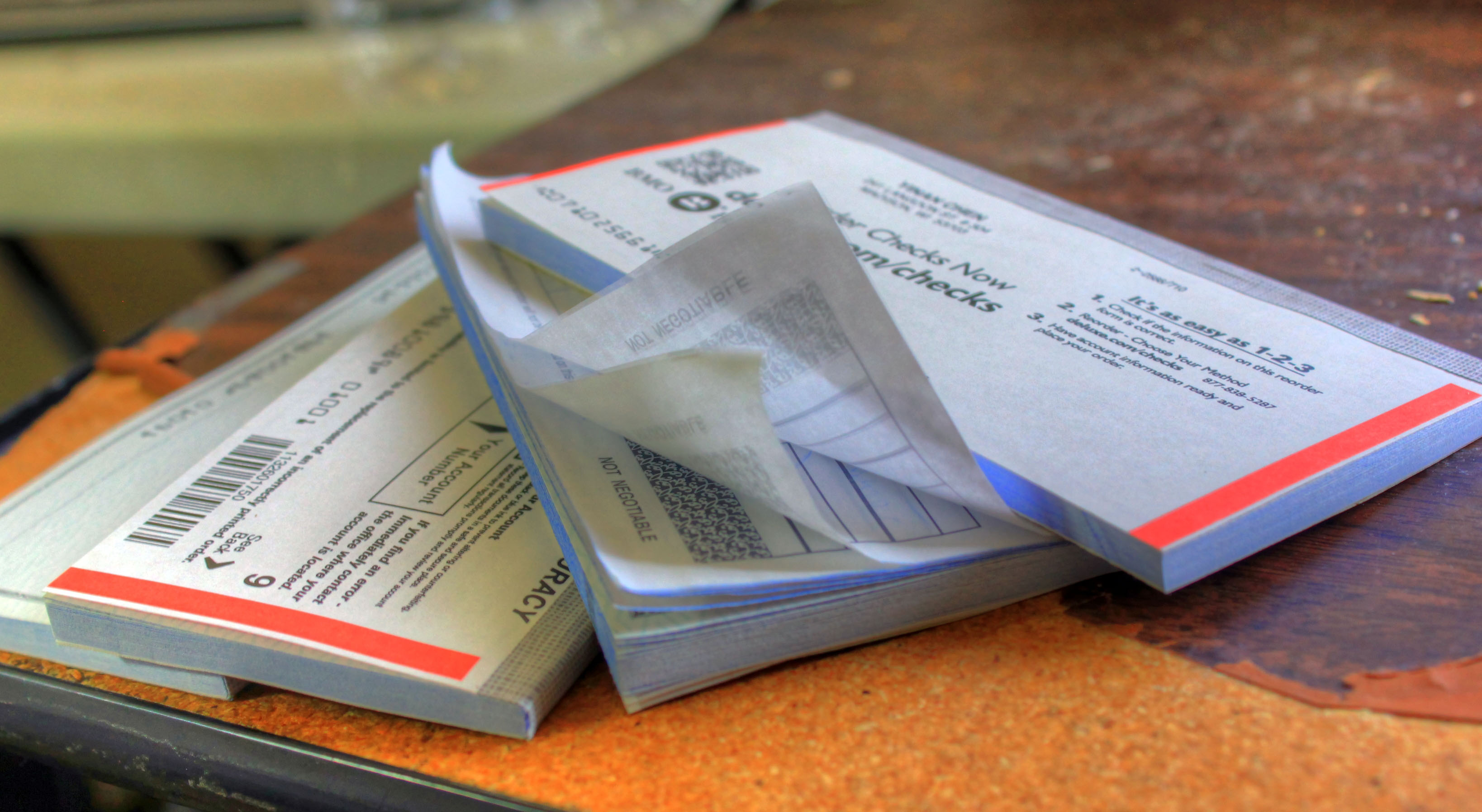 Pictures of other random objects A stack of Checkbooks